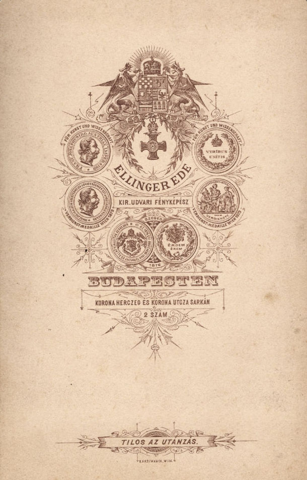 Verso of a photograph by Ede Ellinger